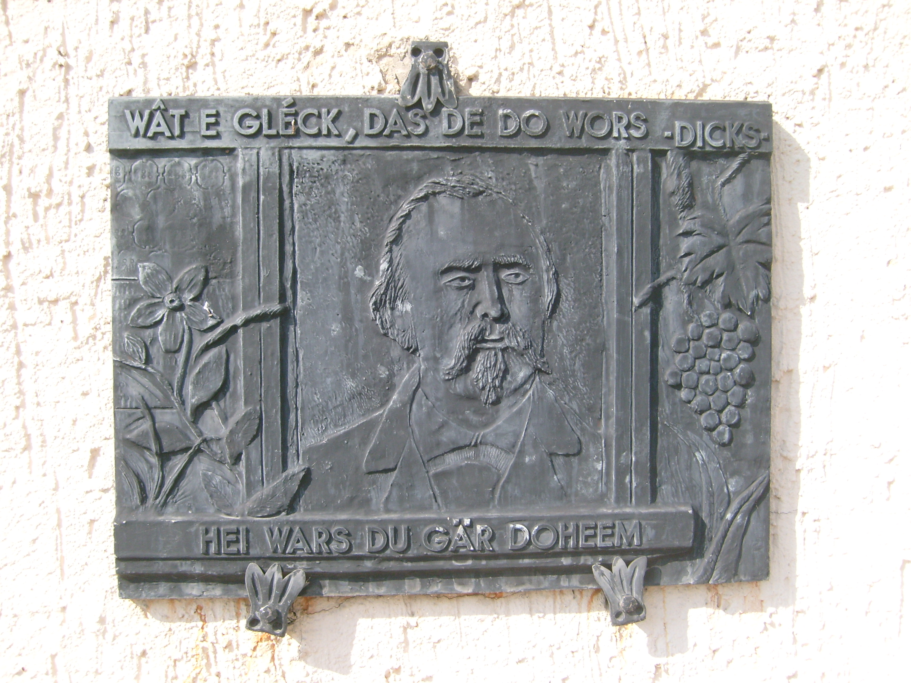 Castle of Stadtbredimus, Luxembourg. Signboard about Author Edmond de la Fontaine.